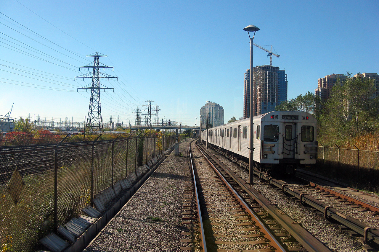 Toronto subway line between Kipling and Islington stations. Ontario, Canada. The entrance to Kipling Station can be seen in the distance under the overpass of Kipling Avenue.